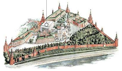 Overview map of the Moscow Kremlin. Location of The State Kremlin Palace marked.